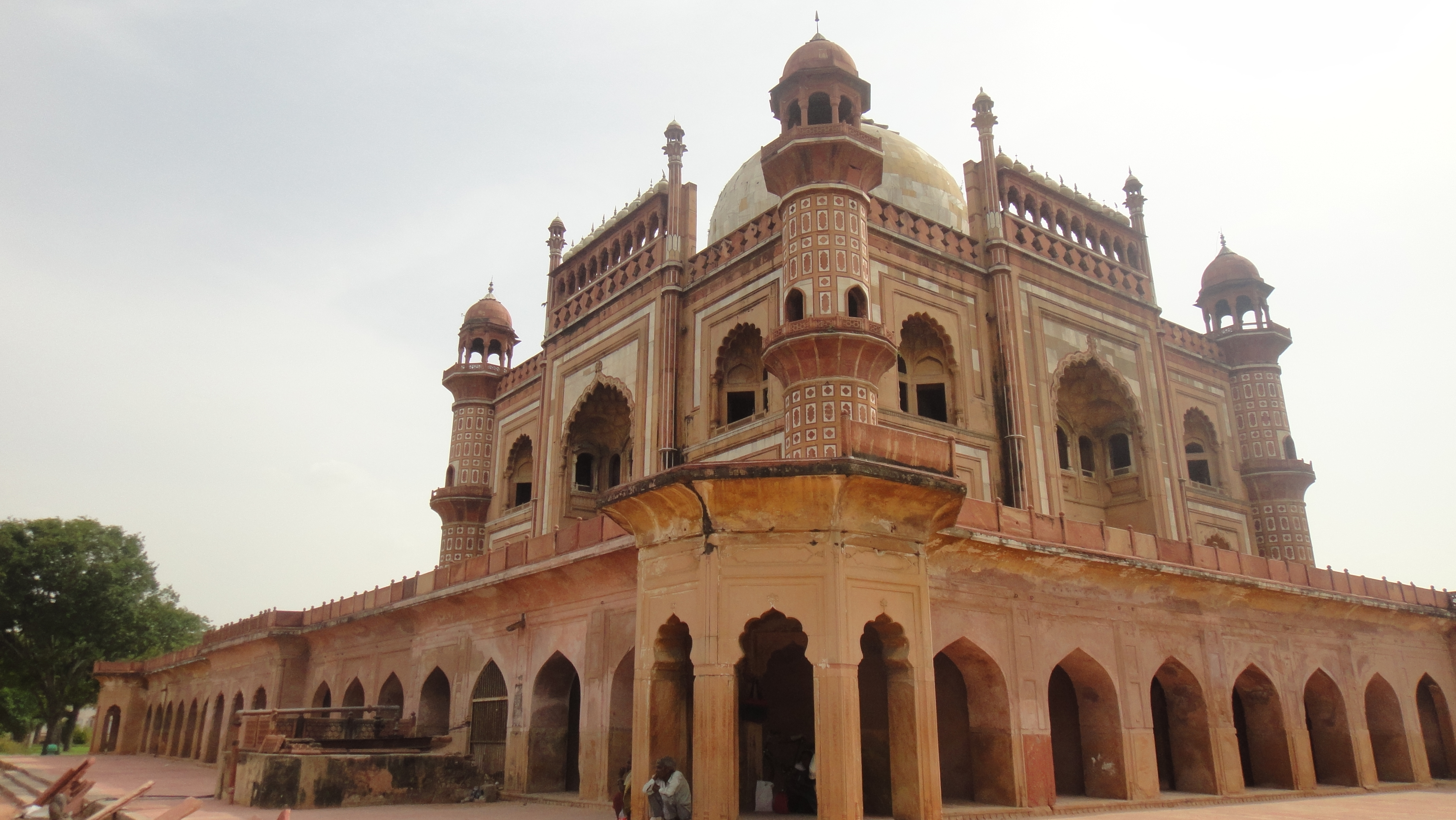 Tomb of Safdarjung